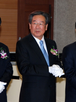 Choi Bool-am at G★2008, Kintax, Ilsan, South Korea, in November 2008